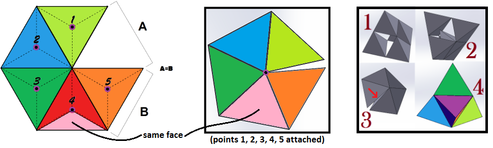 Five tetrahedrons are laid flat on a plane plane, with the highest 3-dimensional points marked as 1, 2, 3, 4, and five. The points are then attached to eachother and a thin volume of empty space becomes obvious, where no tetrahedron of the same size can fit. However, the length of each tetrahedron edge to the distance of the space between the vertices (this is "A" in the above figure, when folded) reveals a ratio of 9. Created with Solid Works.